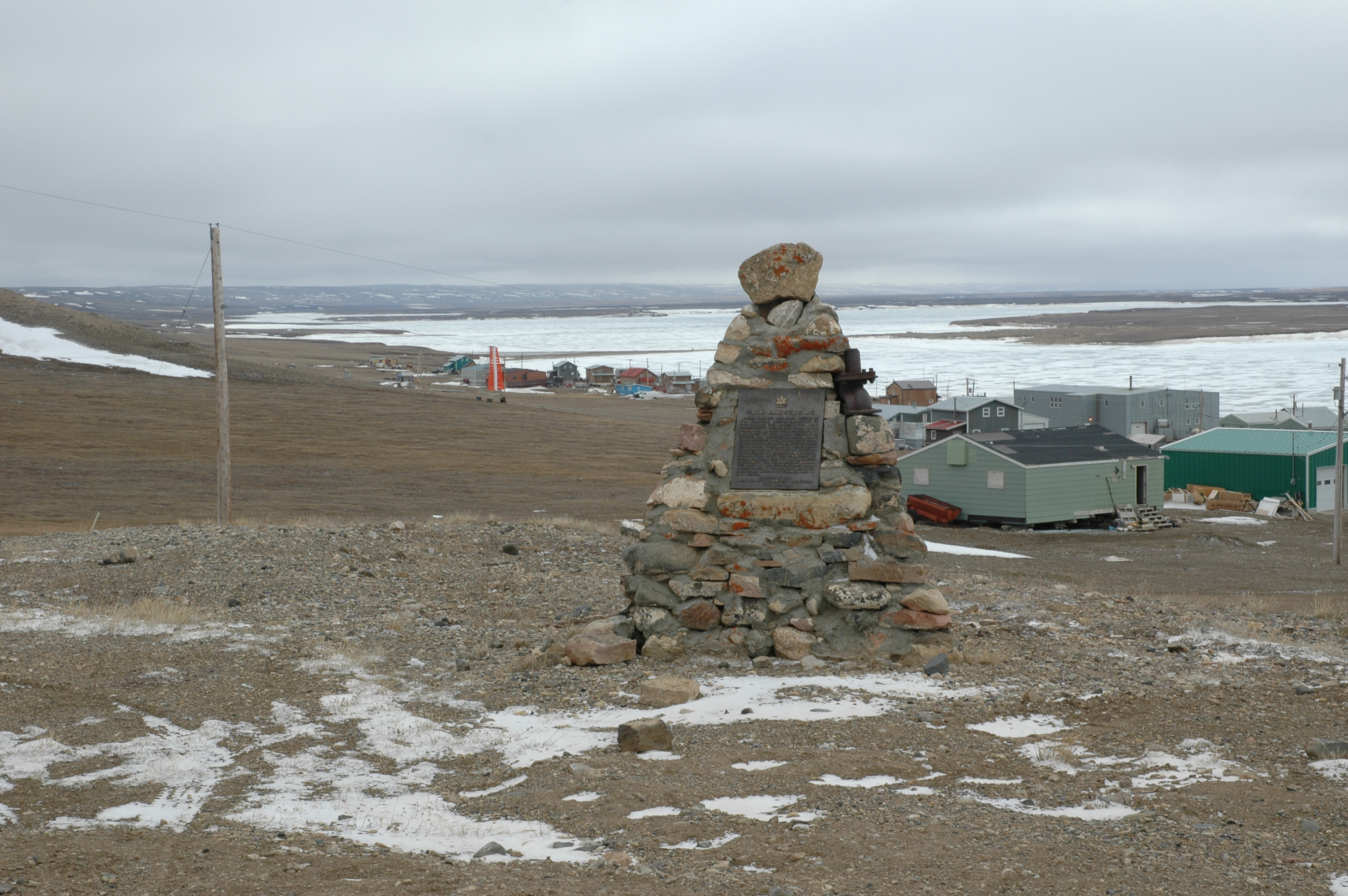 Cairn and Sachs Harbour, Northwest Territories, Canada